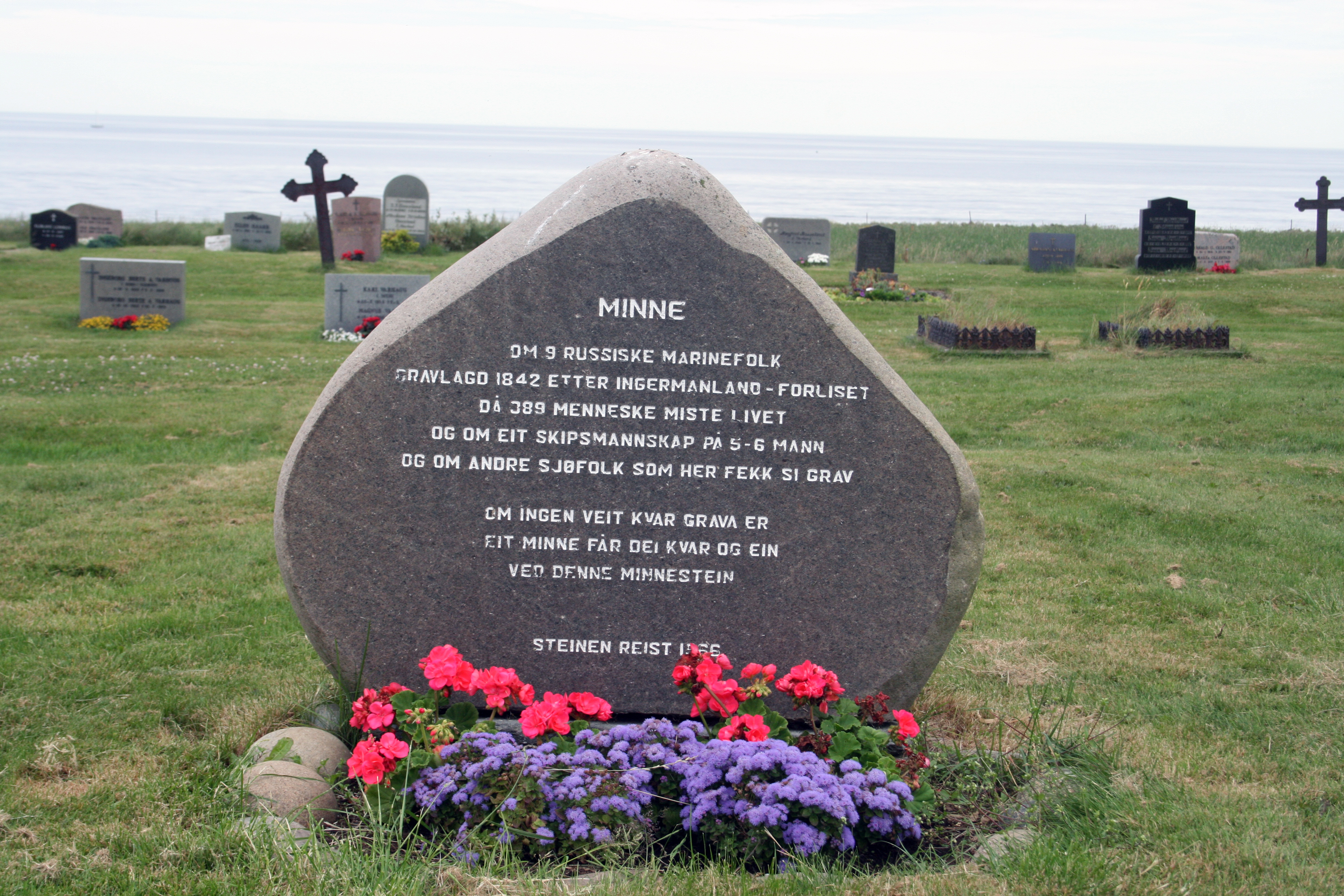 Varhaug old cemetery in Hå municipality, Rogaland, Norway. Church location from the 13th century. Today's chapel from 1951. Memorial for the Russian naval ship Ingermanland that wrecked in 1842.